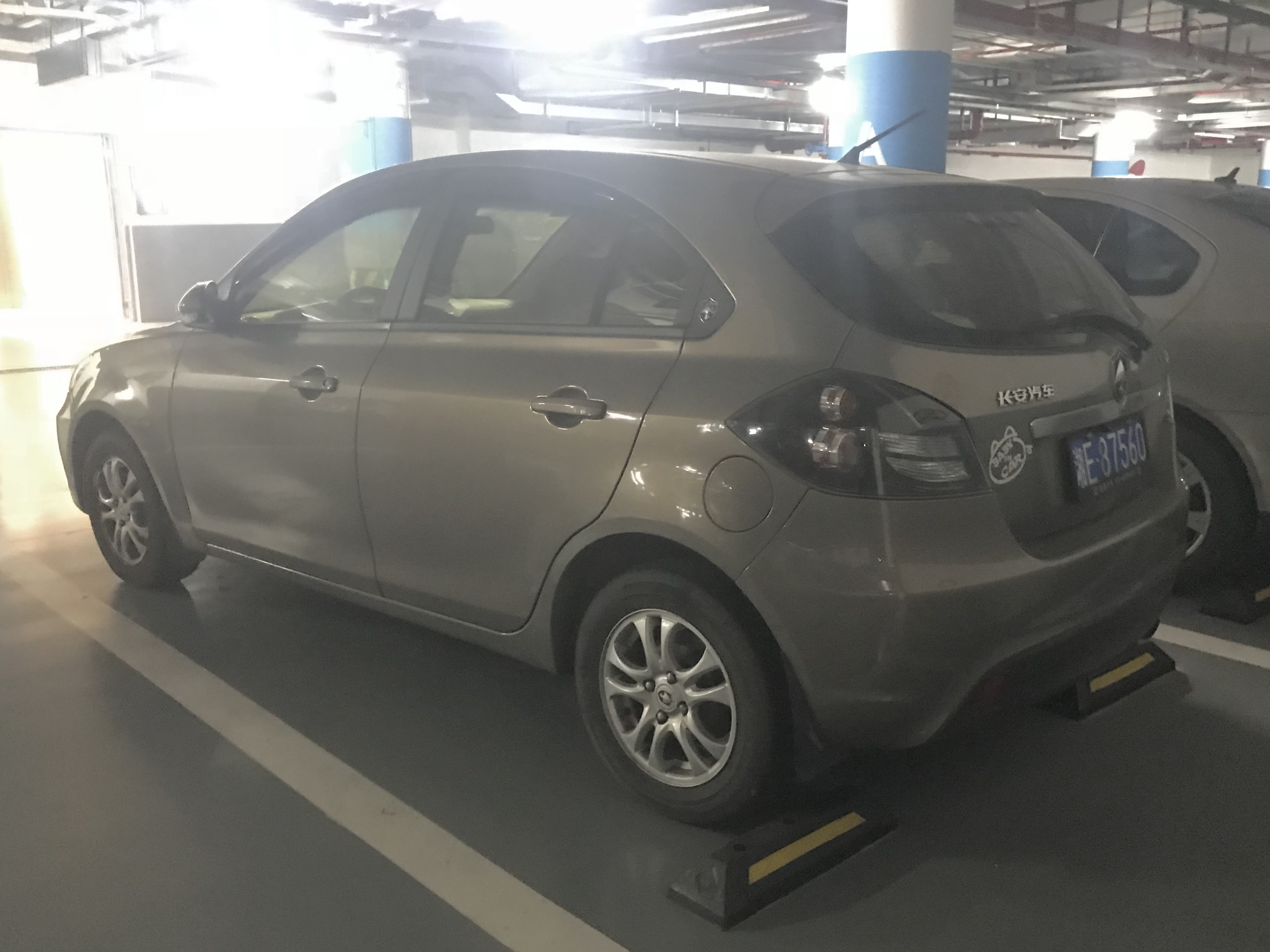 Changan Alsvin hatchback